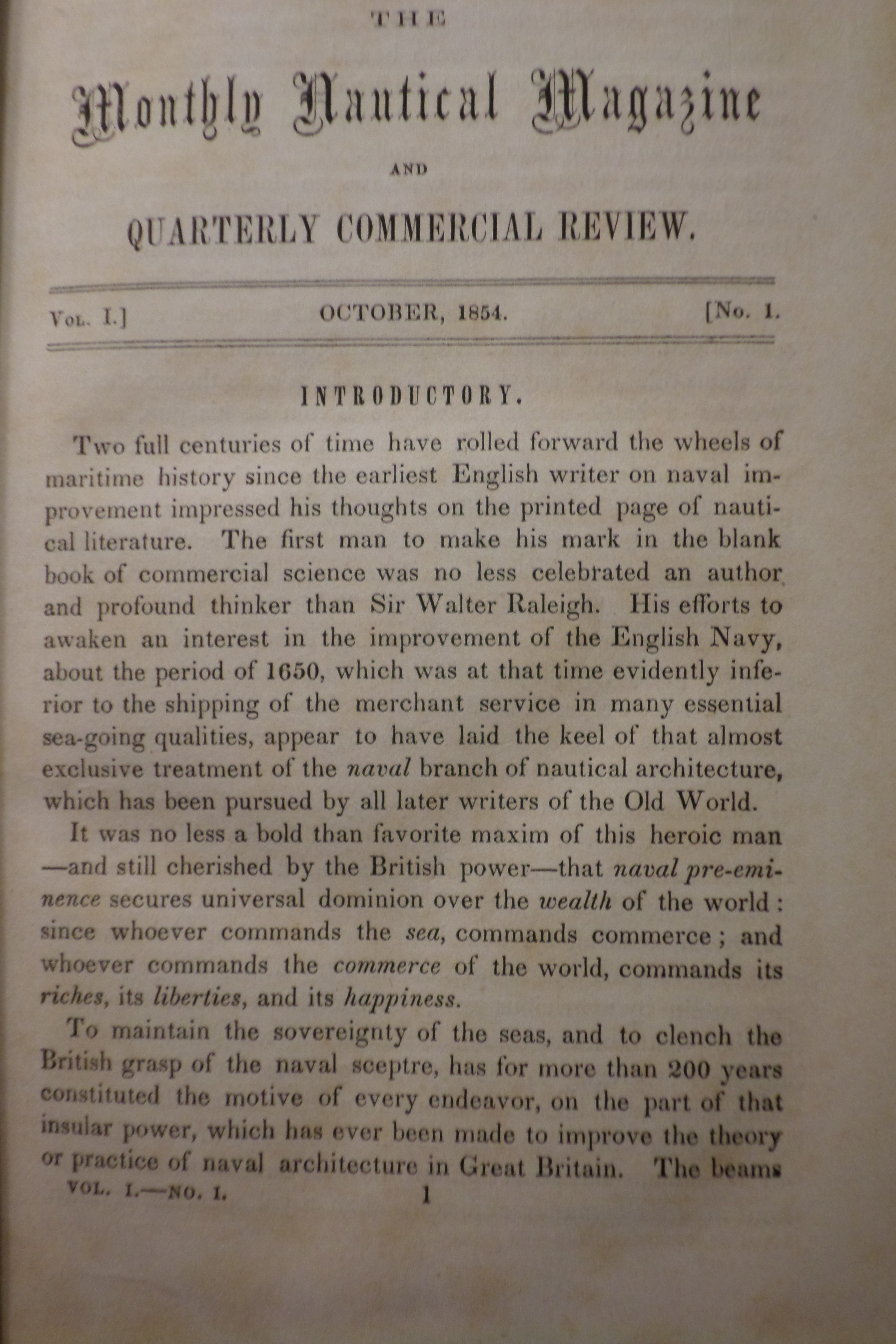 First issue of Monthly Nautical Magazine, published in October 1854 by John Willis Griffiths (1809-1882) and William Wallace Bates